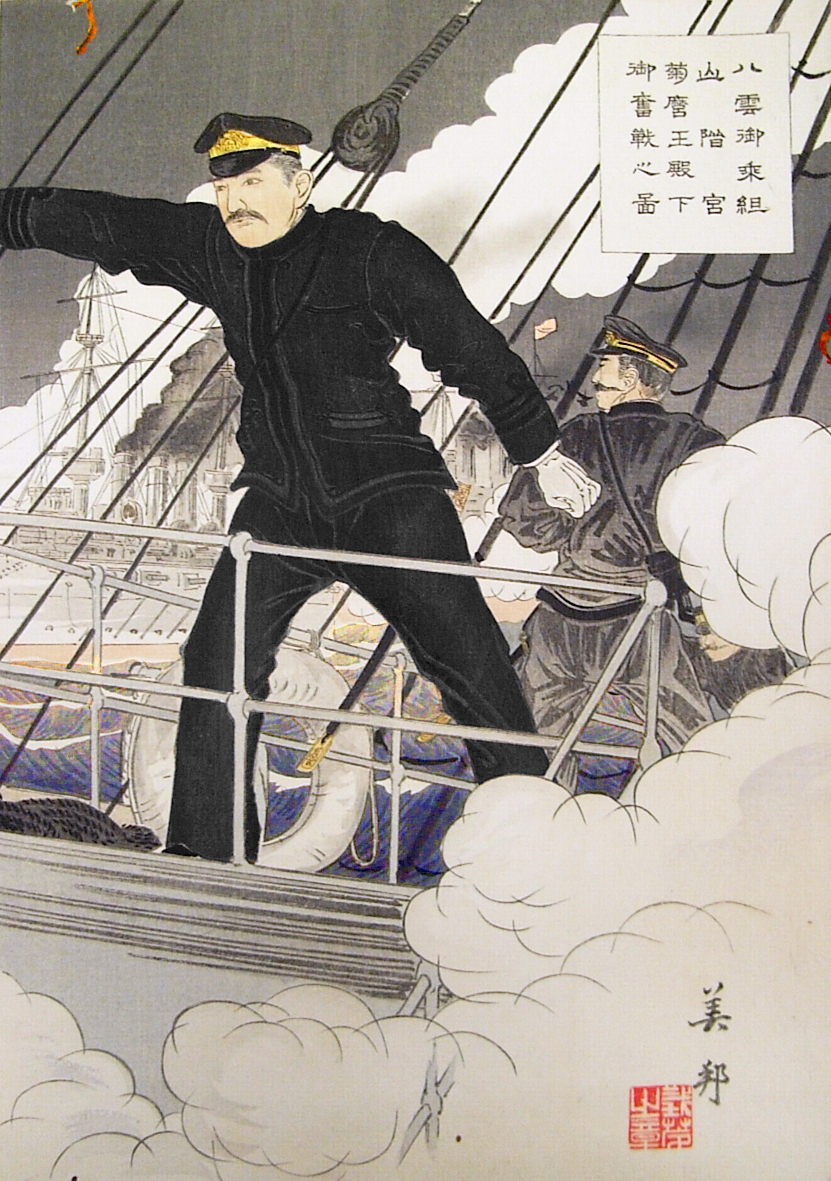 HIH Prince Yamashina Kikumaro on deck of Japanese cruiser Yakumo, Russo-Japanese War (left side of tripicht)